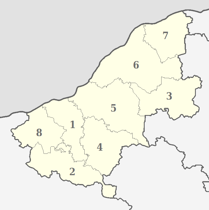 Rousse Province. Мunicipalities: 1. Borovo, 2. Byala, 4. Dve mogili, 5. Ivanovo, 6. Rousse, 7. Slivo pole, 8. Tsenovo, and 3. Vetovo.